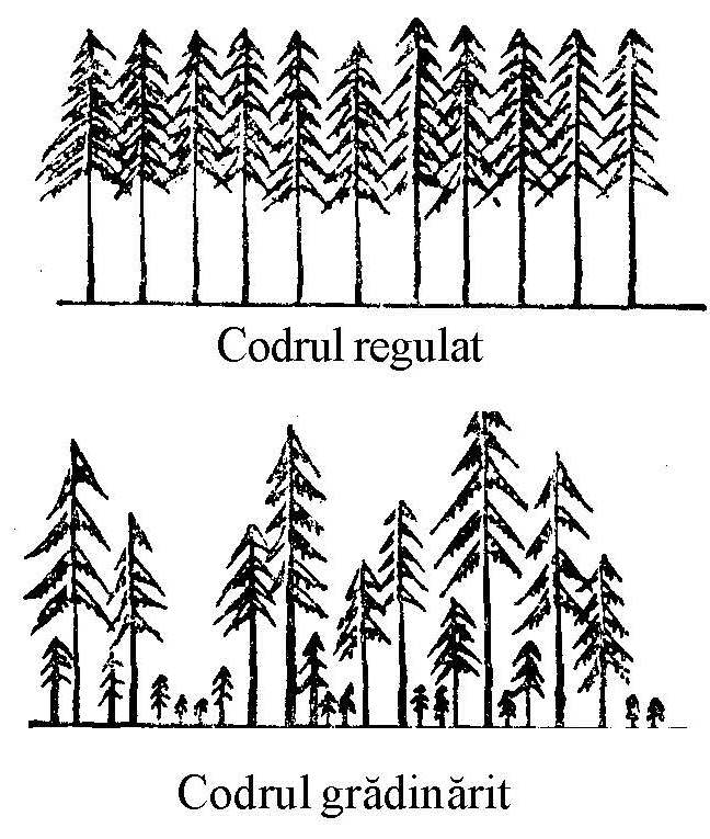 Selection forest and regular forest